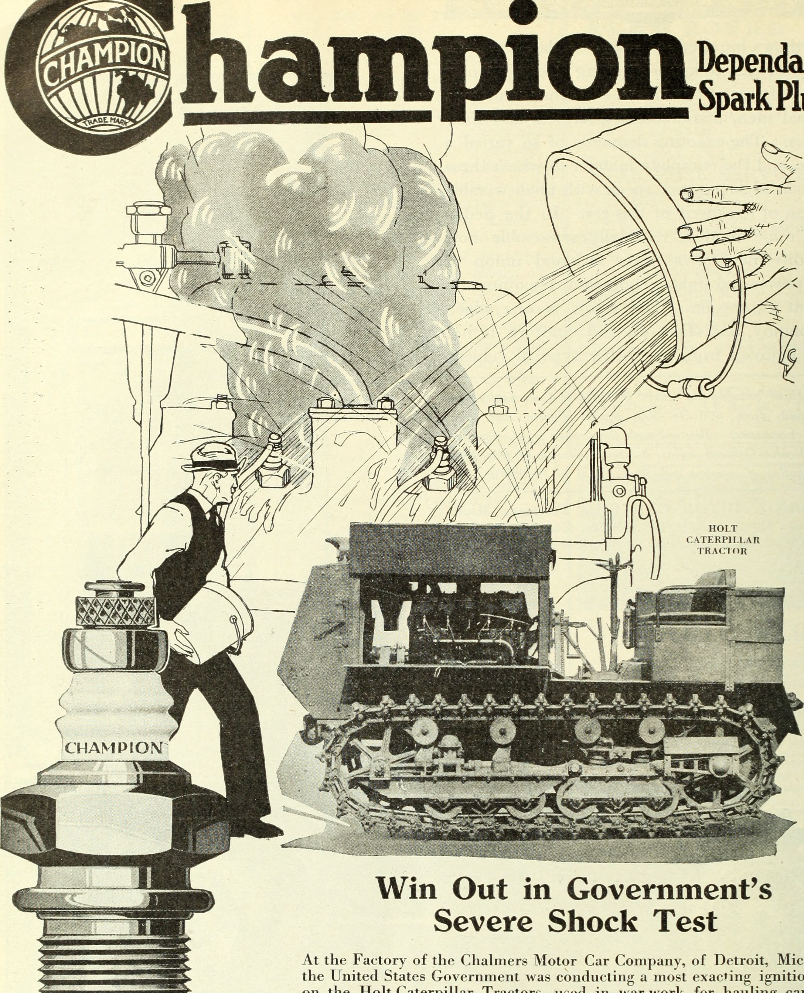 Title: The literary digest Year: 1890 (1890s) Authors: Subjects: Publisher: New York : Funk & Wagnalls (etc.) Text Appearing Before Image: 96 The Literary Digest for February 15, 1919 M ^\n Dependa))! Spark Pli^s Text Appearing After Image: JAS43. yg-18. PRICE $1.00 CHAMPION HEAVY DUTY Win Out in GovernmentsSevere Shock Test At the Factory of the Chalmers Motor Car Company, of Detroit, Michigan,the United States Government was conducting a most exacting ignition teston the Holt-Caterpillar Tractors, used in war-work for hauling cannons,caissons, etc. With motor at high speed under heavy load, the spark plugs at sizzlingheat were doused with a bucket-ful of cold water. This most severe test had not the slightest adverse effect, the operation ofthe motor continued perfectly, not a spark plug missed even temporarily. To withstand the brutal punishment of this test would not have been possibleexcept for the superior quality of Champion No. 3450 Insulator. Every motor car owner has, in this test, irrefutable proof of the hardinessand efficiency of Champion Spark Plugs. Champion Spark Plug Company, Toledo, Ohio Champion Spark Plug Company, of Canada, Limited, Windsor, Ontario The Literary Digest for February 15, 1919 97 and st